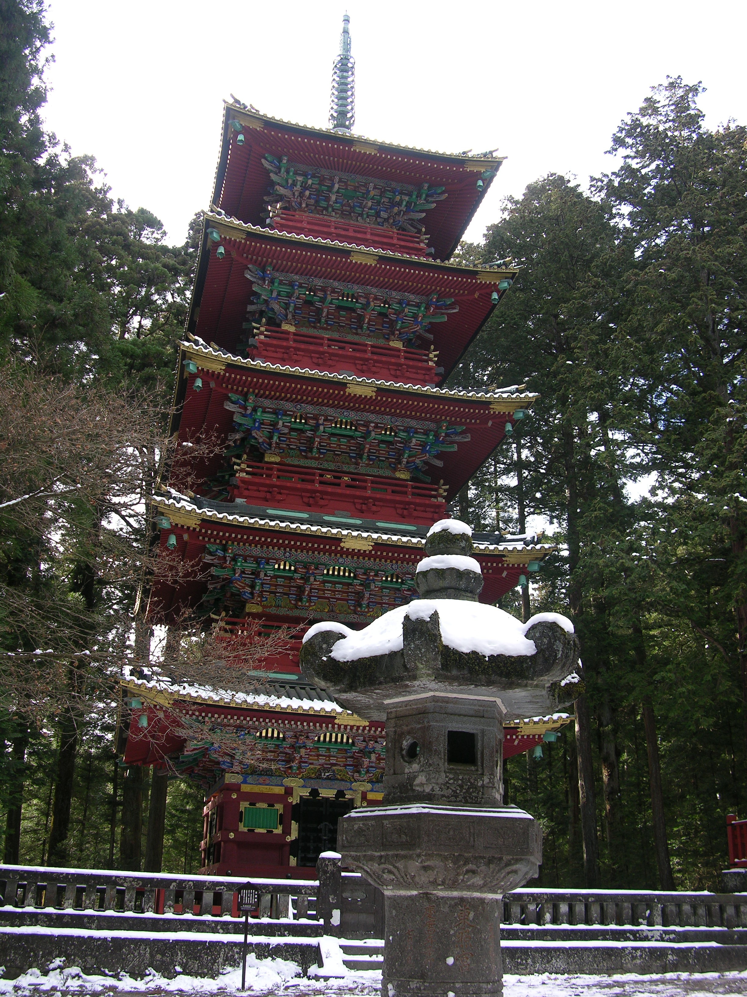 Author: Sergio Perez, December 2005. Camera Nikon Coolpix 8 MPixel